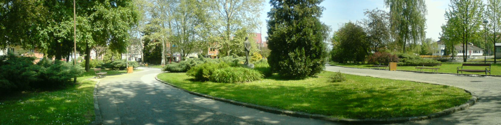 Park Jadar in Valjevo city